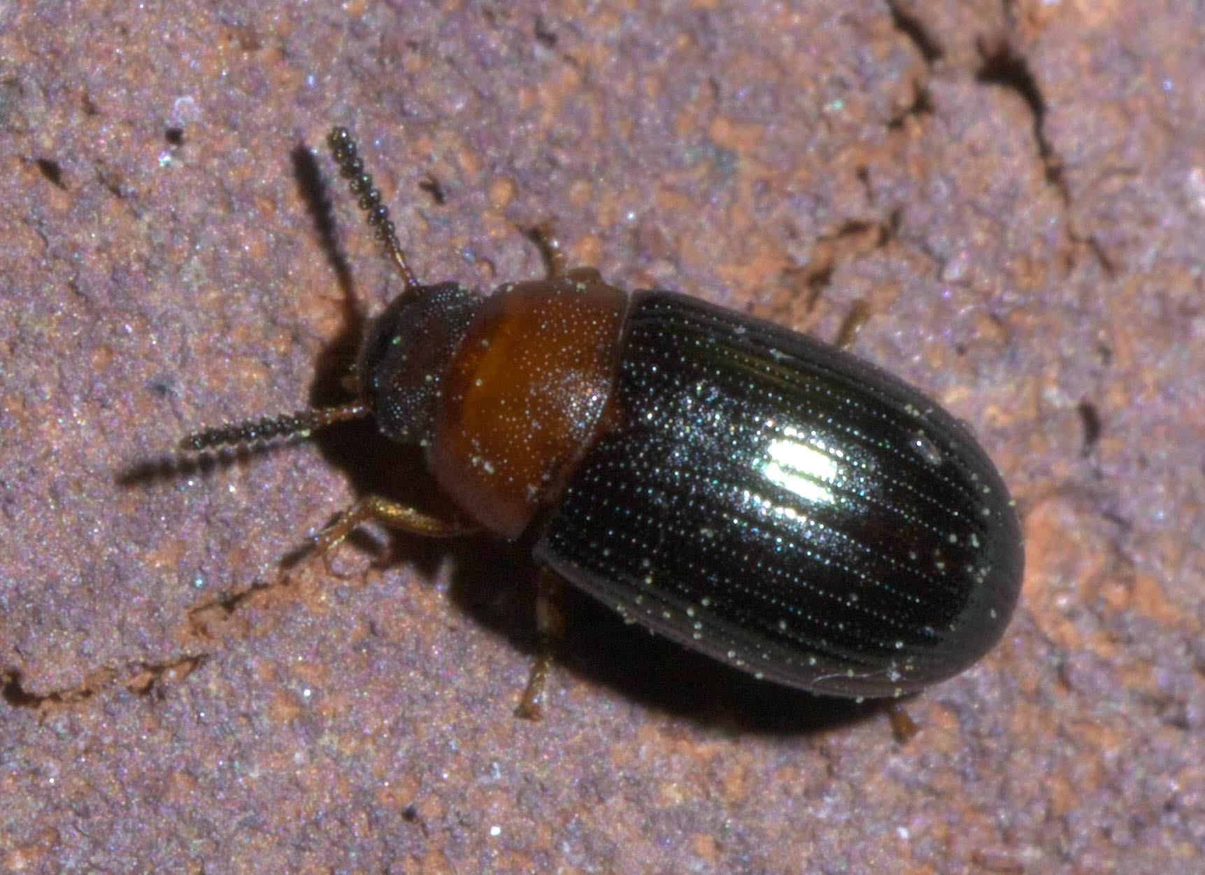 Neomida bicornis, Family: Darkling Beetles, Size: 3.8 mm, ID Confidence: 90